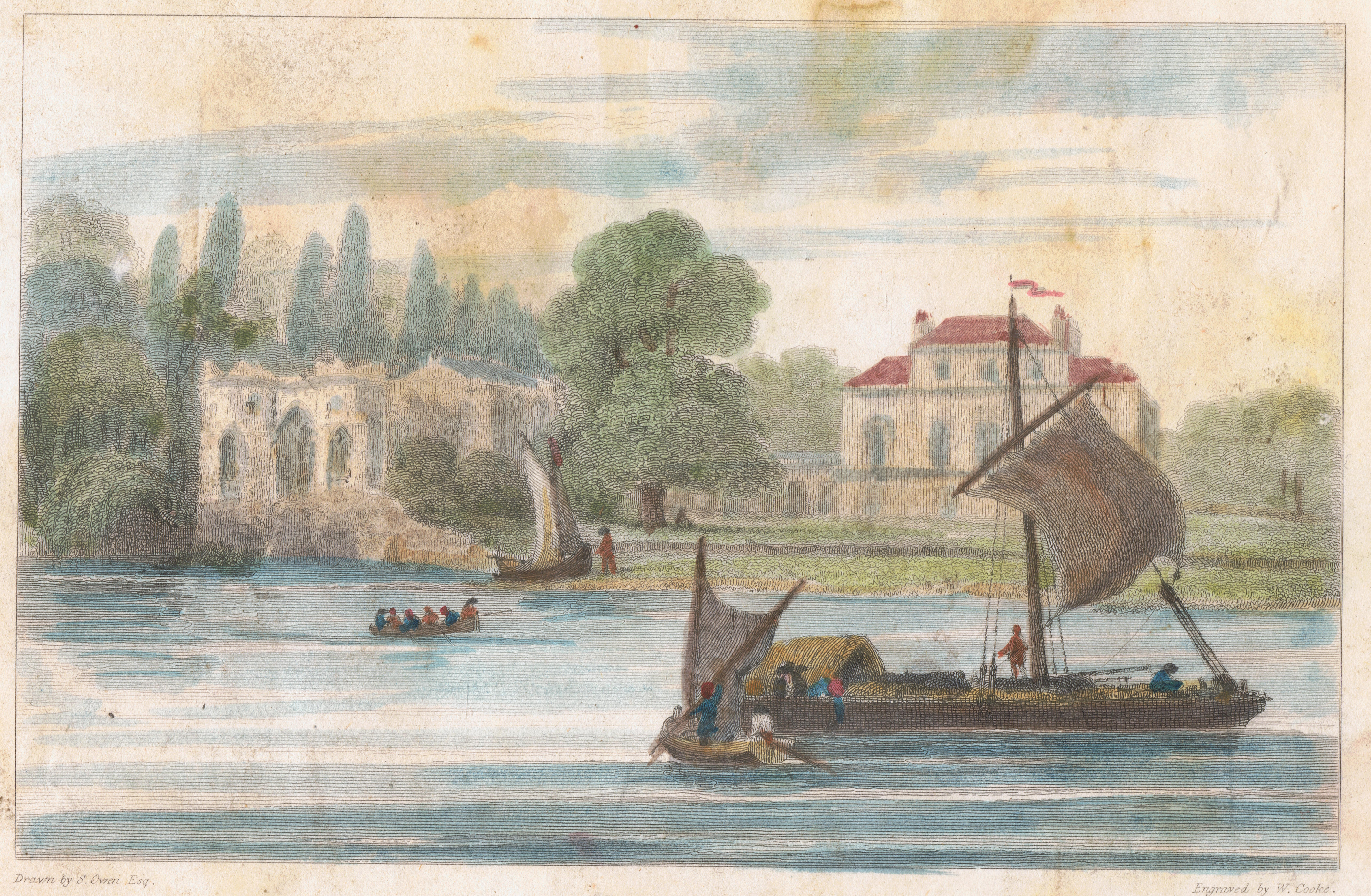 View of the Margravine of Anspach's Brandenburgh House, published May 1, 1809, by Verner, Hood and Sharpe and W. Cooke. Drawn by S. Owen, engraved by W. Cooke.